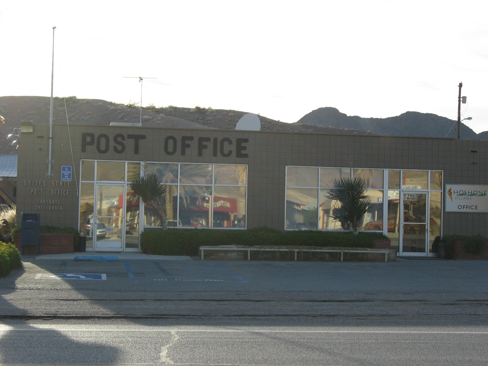 Shoshone, California post office